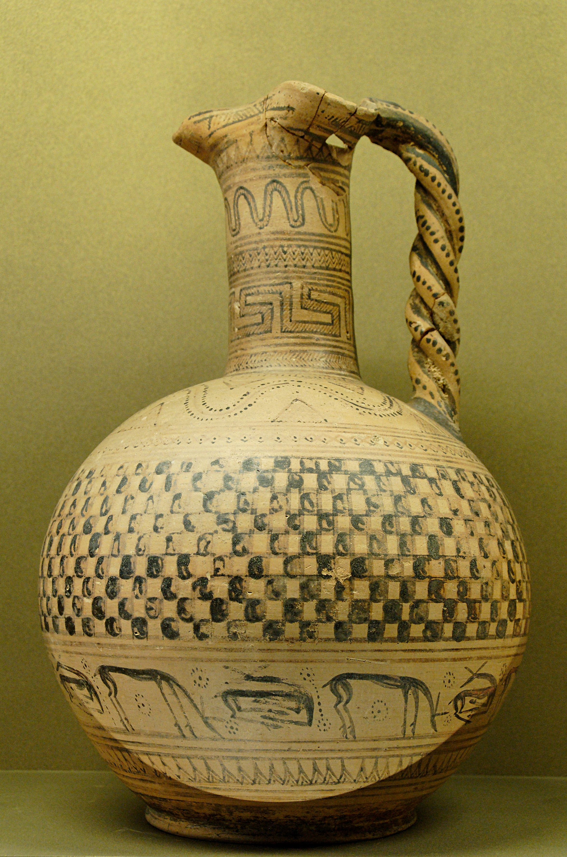 Attic Late Geometric oinochoe, ca. 750 BC. From Boeotia.